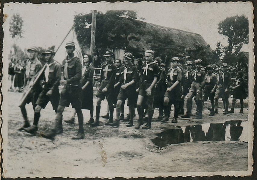 Members of Beitar movement at a summer camp in the Polish resort town Zakopane.